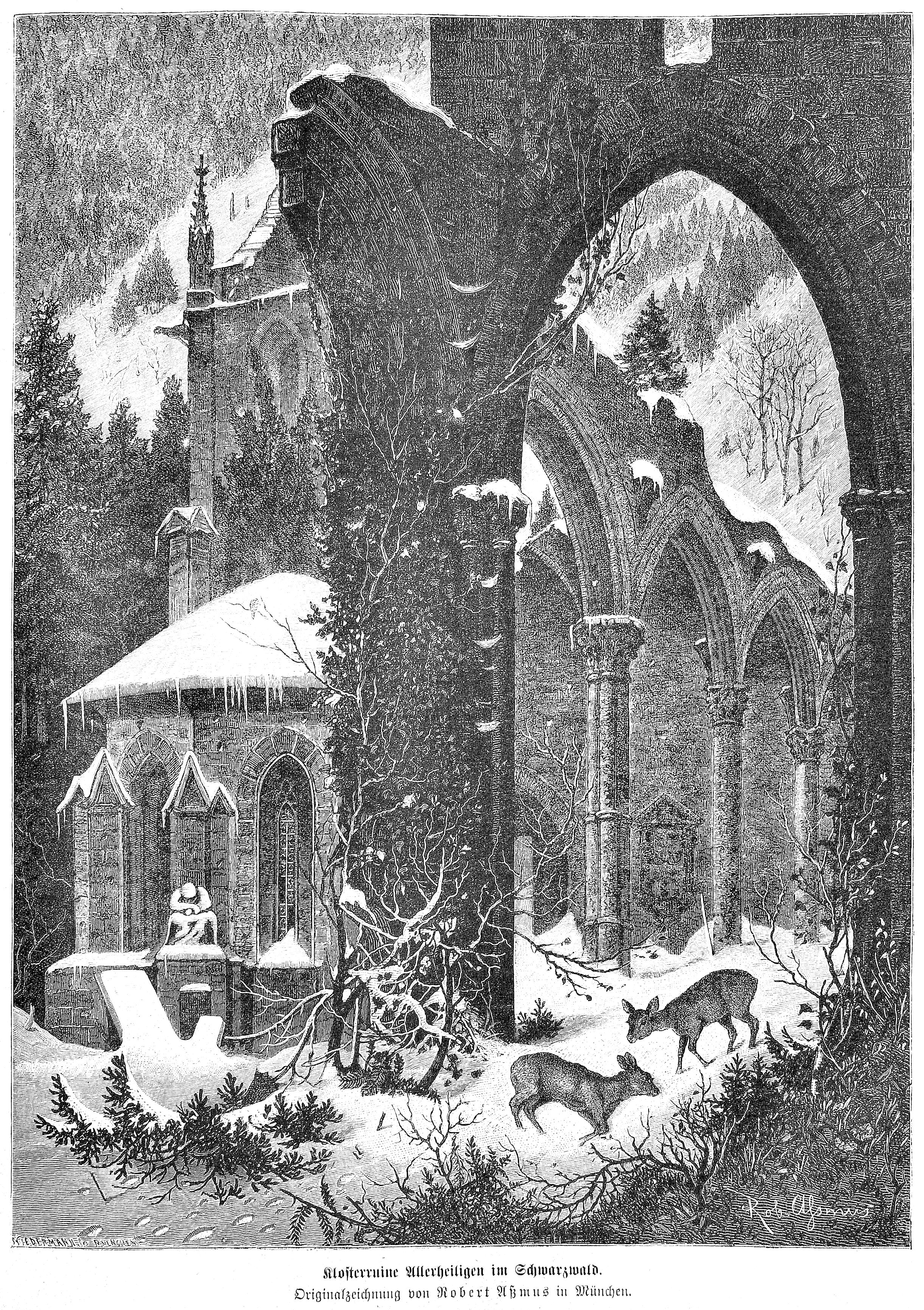 caption: "Klosterruine Allerheiligen im Schwarzwald. Originalzeichnung von Robert Aßmus in München."